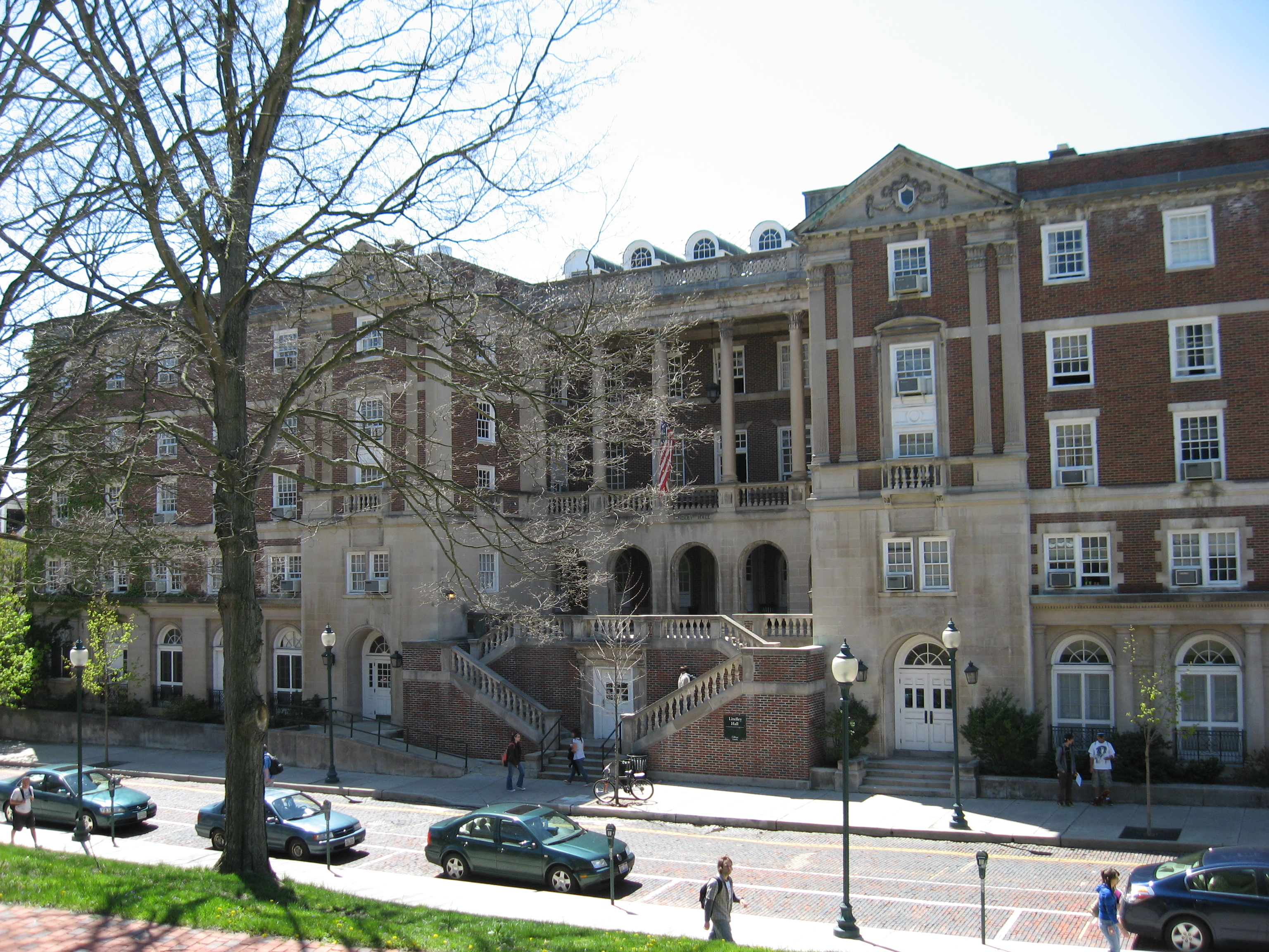 The exterior of Lindley Hall at Ohio University (Athens, Ohio, USA)